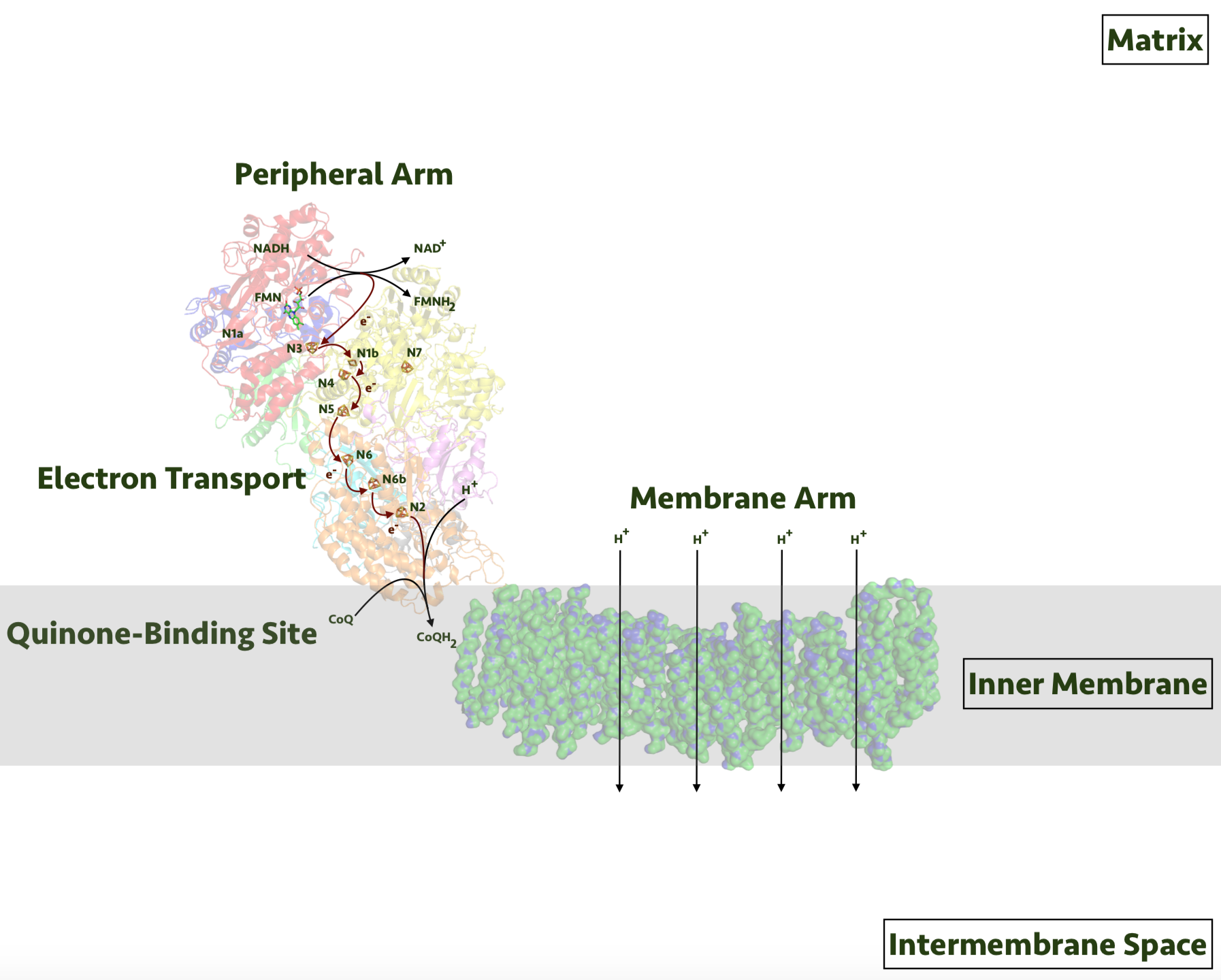 This image fixes the problems with the original image (some incorrect reagents) and explains the two parts of the Complex I mechanism (this article was missing the second part).